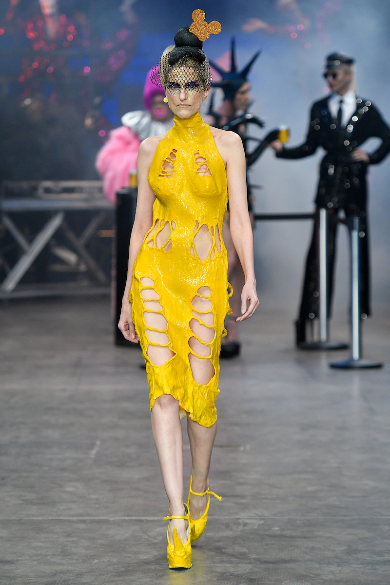 Rober Dognani- 46ª Casa de Criadores- Inverno 2020- Novembro 2019